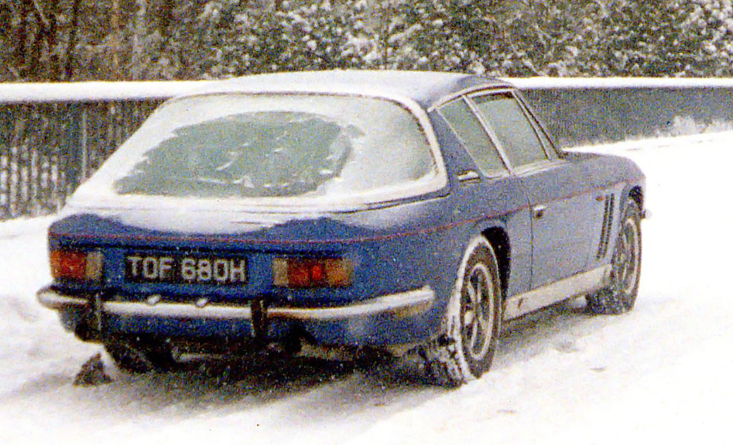 1969 Jensen FF mk11. (DVLA) first reg 27 January 1970360 bhp four wheel drive in snow on Hubbards Hill, Sevenoaks, Kent.